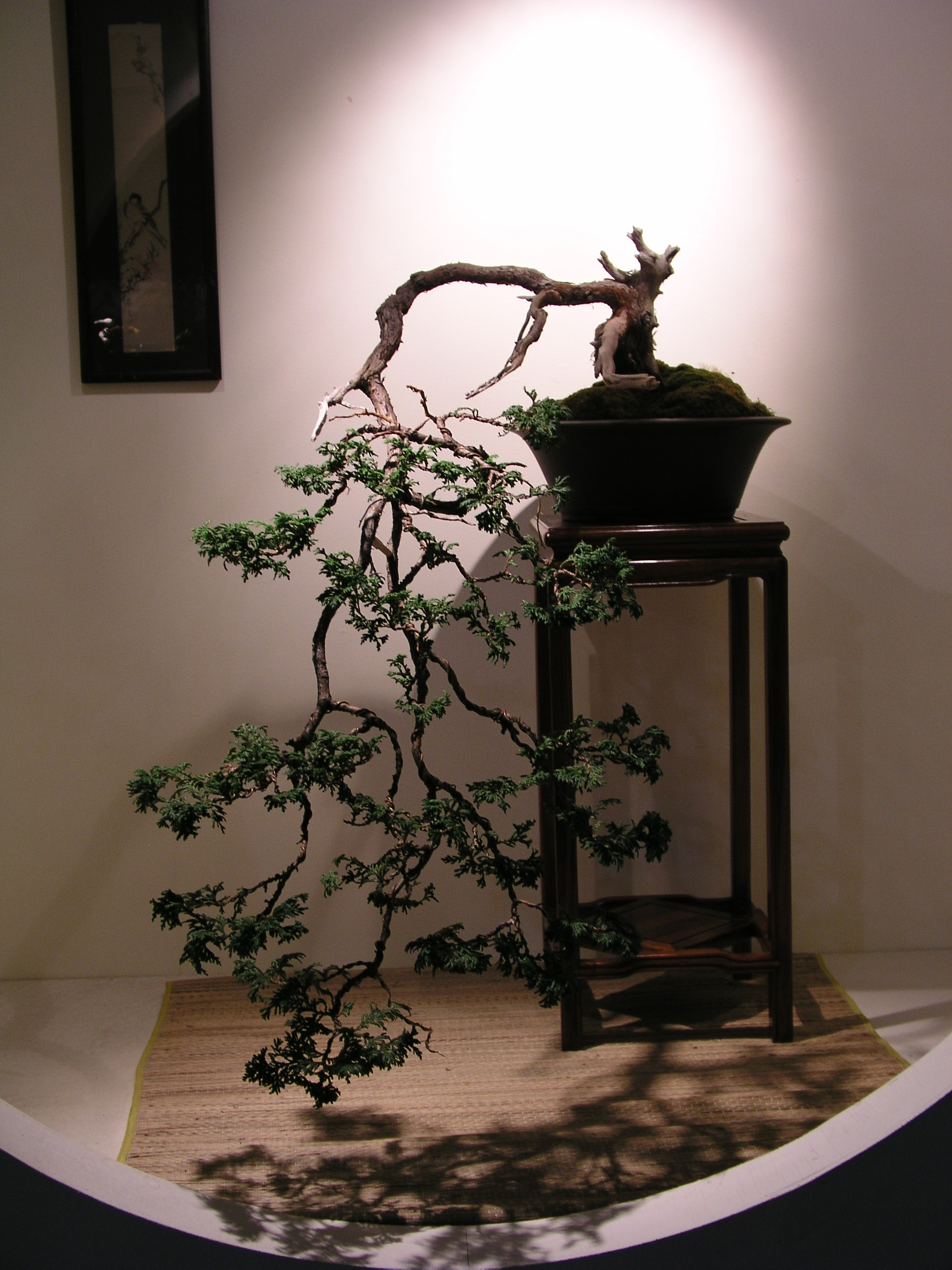 Cascade style bonsai (not weeping bonsai as titled) — at Philadelphia Flower Show, 2005.